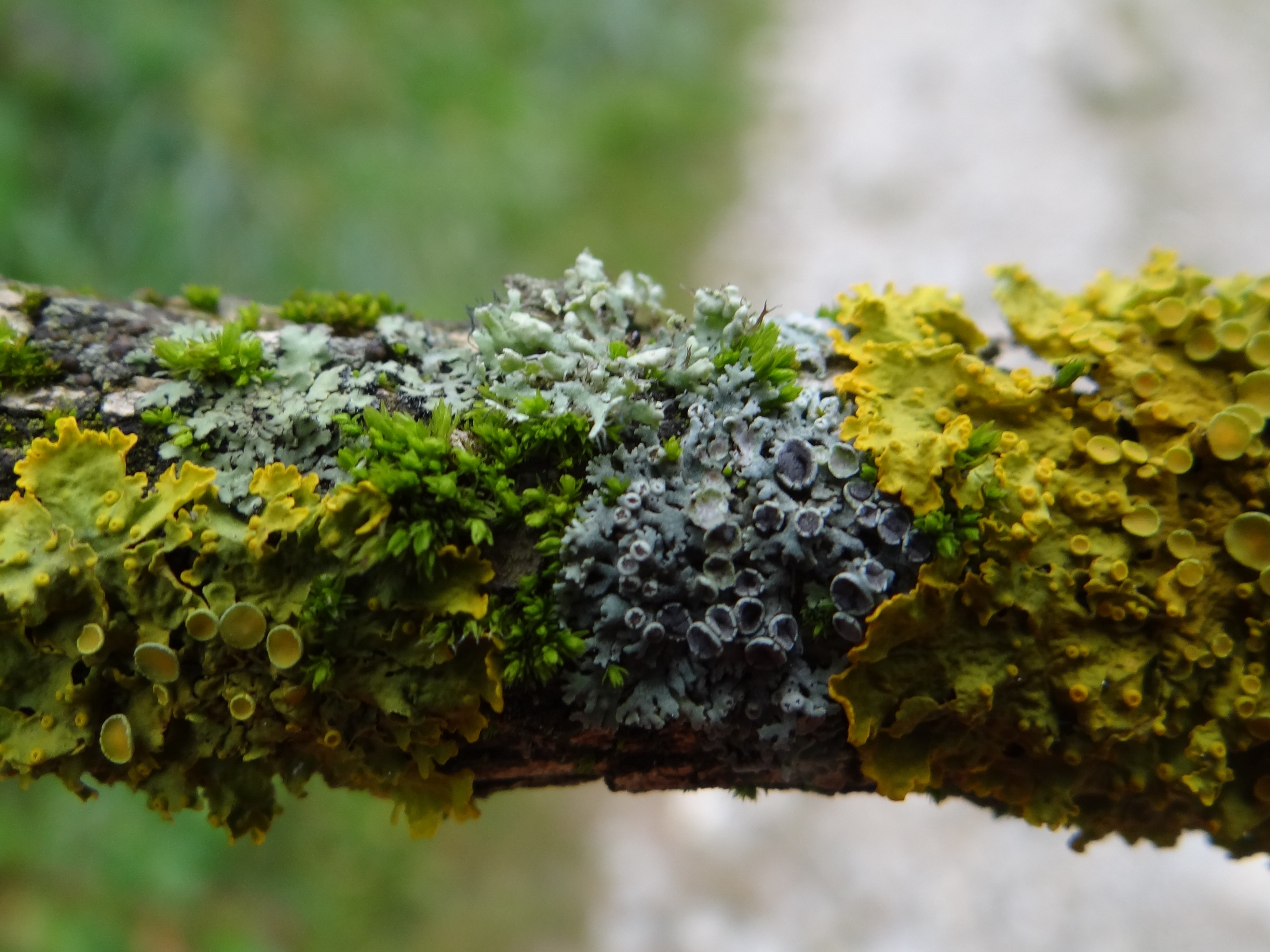 Xanthoria parietnia, Physcia stellaris and Bryophyta sp. (location: Poland, Pieniny, Sromowce Niżne)